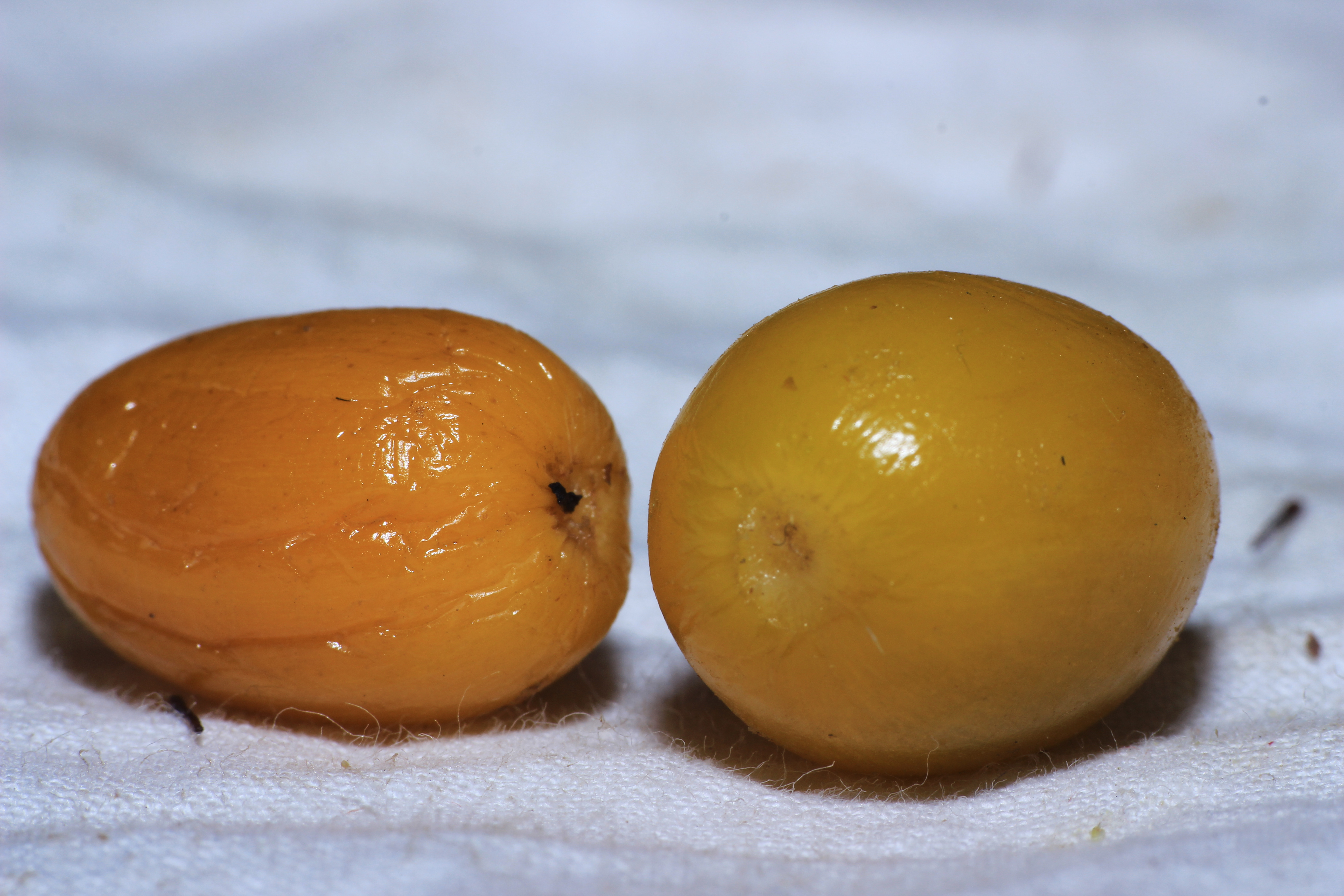 Fruits of Manilkara hexandra ગુજરાતી: રાયણ – એક ફળ